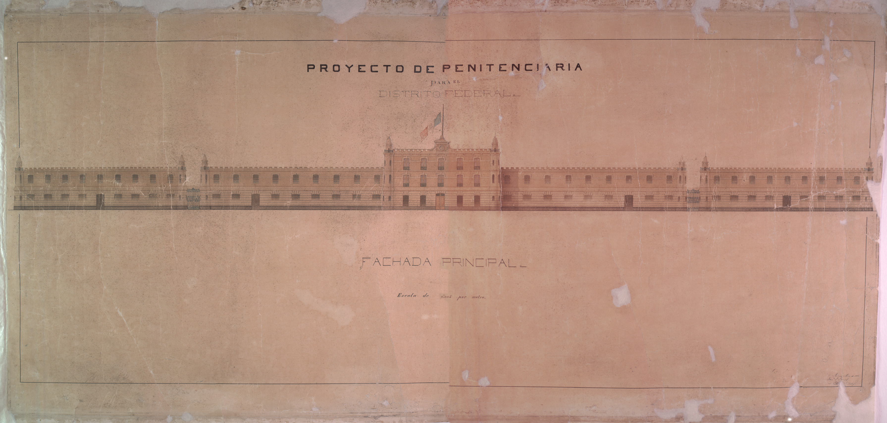 Layout of the creation of the prison